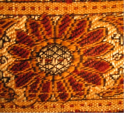 Traditional persian flower pattern on textile